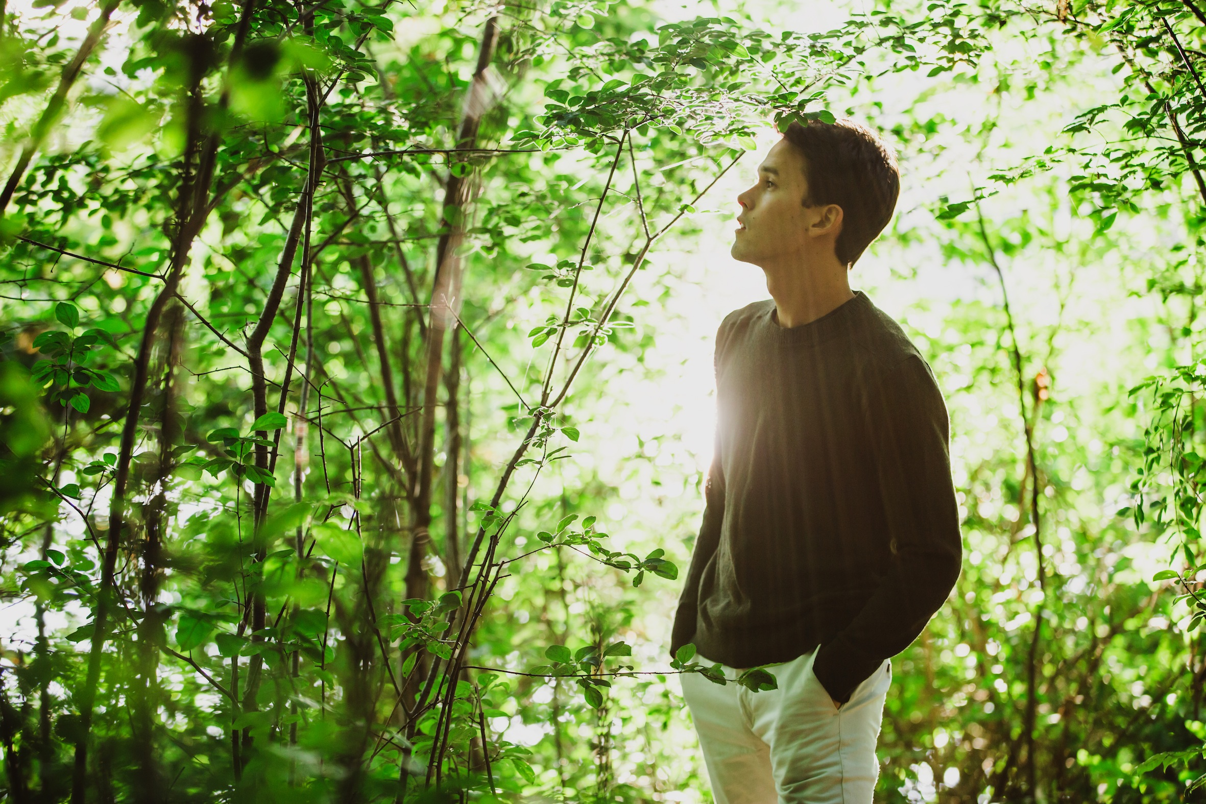 Justin Nozuka